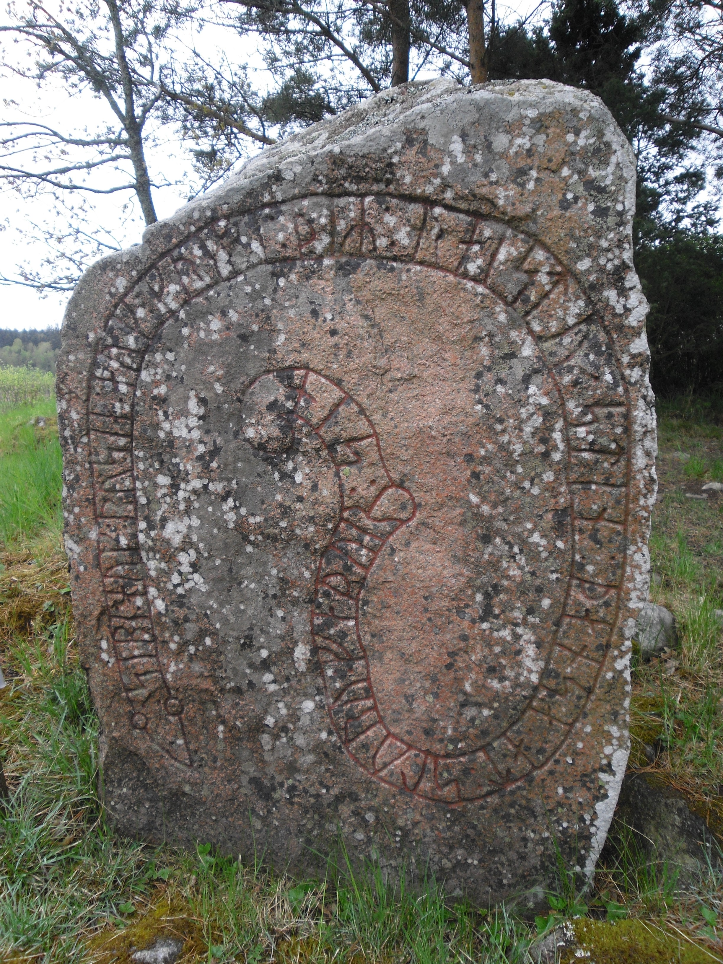 The runestone Sö 183 at Viggeby, Mariefred, Södermanland, Sweden